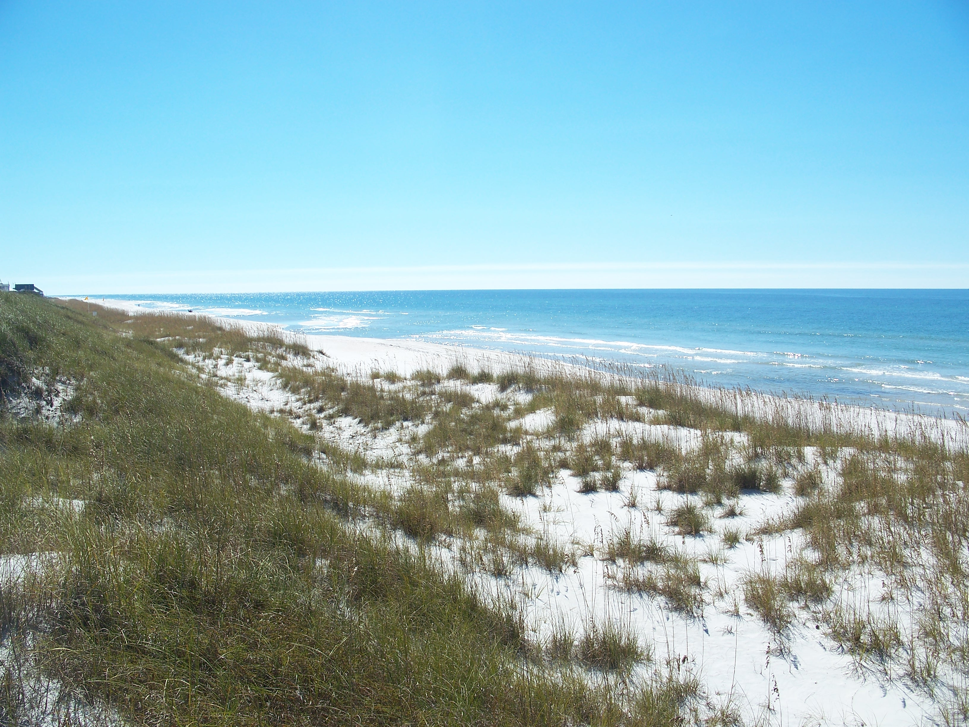 St. Joseph Peninsula State Park — beach, looking south.